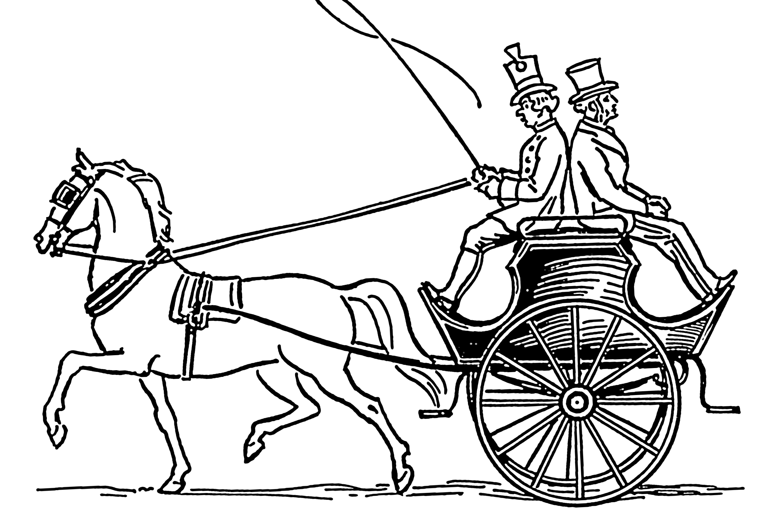 Line art drawing of a dogcart.